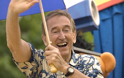 Bob McGrath, from the cast of Sesame Street, performing at a Sesame Place concert.